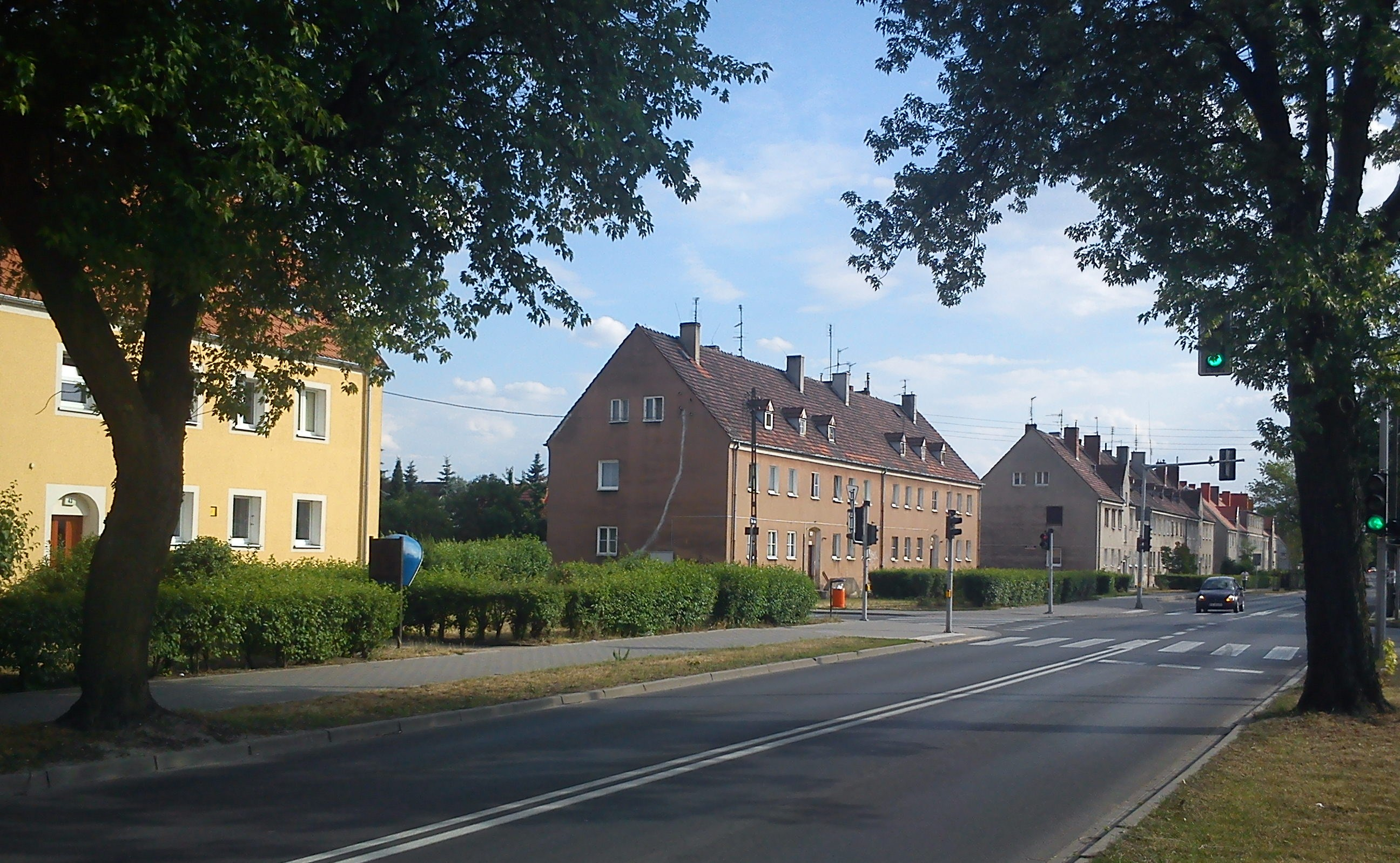 Opolska Street, Poznan.